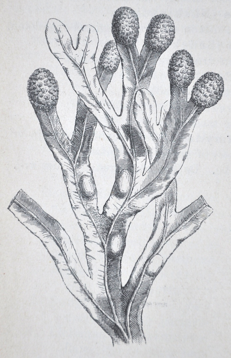 Drawing of Fucus vesiculosus (bladder wrack), from a Dutch pharmaceutical handbook of 1903 (see: source).